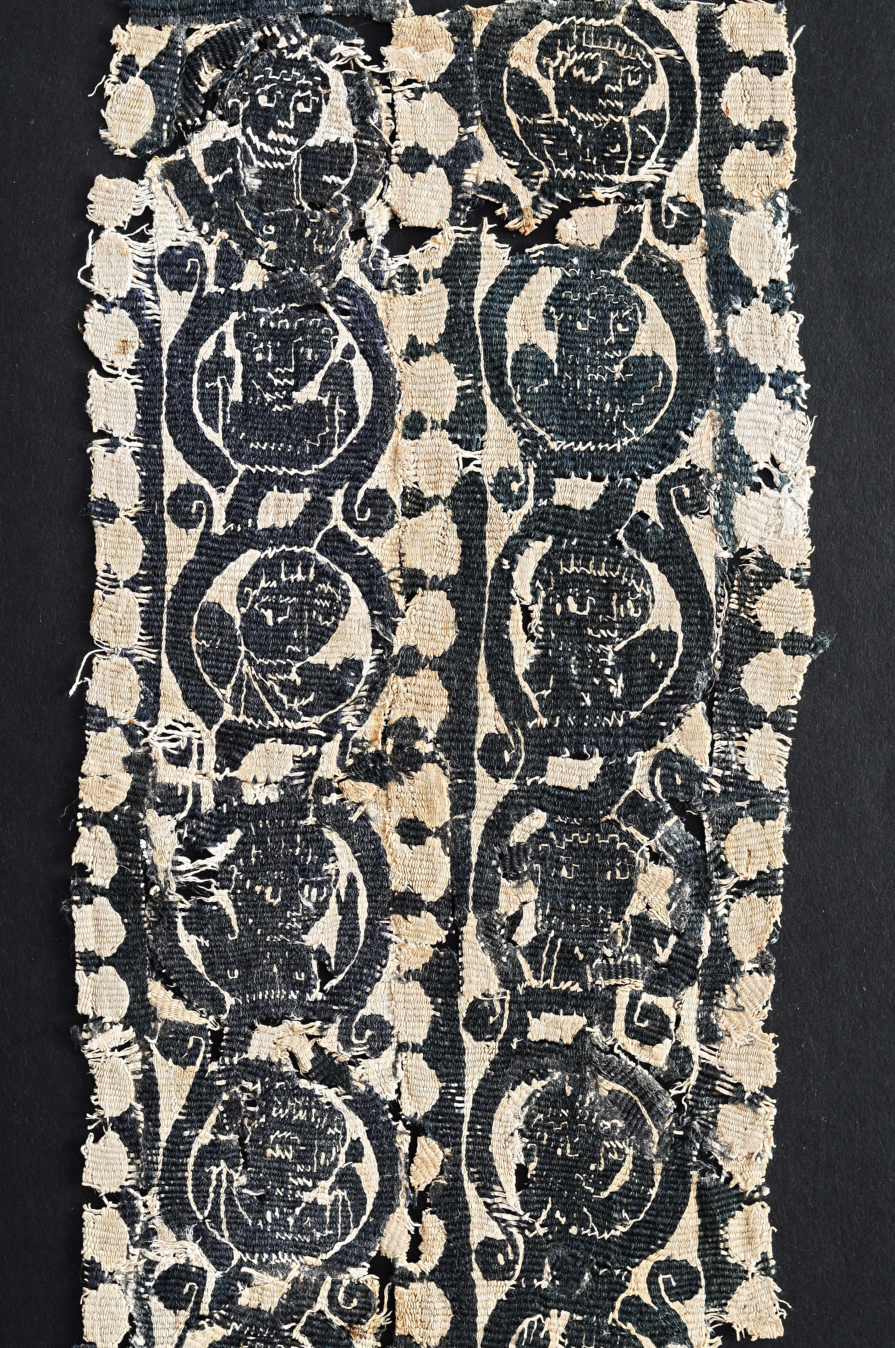 Ancient Coptic material from Egypt